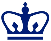 The crown of the Columbia University Medical Center.